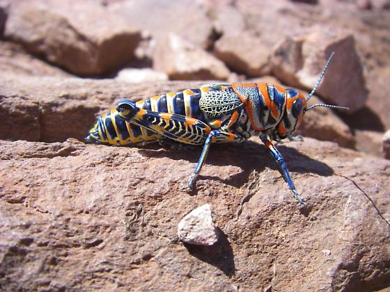 Dactylotum bicolor (Rainbow Grasshopper, or Painted Grasshopper) Cochise County, Arizona